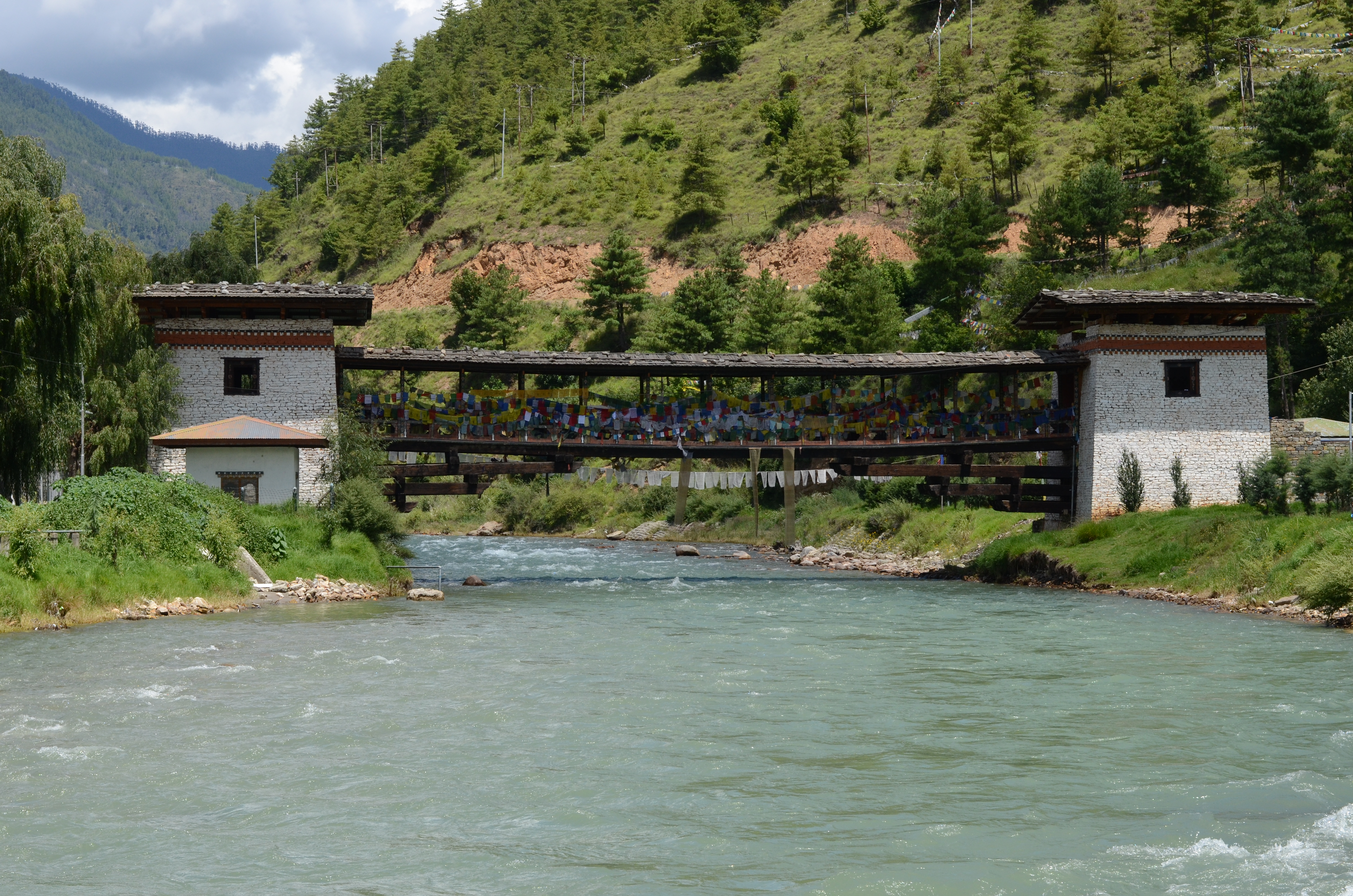 A Bhutanese cantilever footbridge named Kundeling Bazam - below vegetable market Thimphu Bhutan